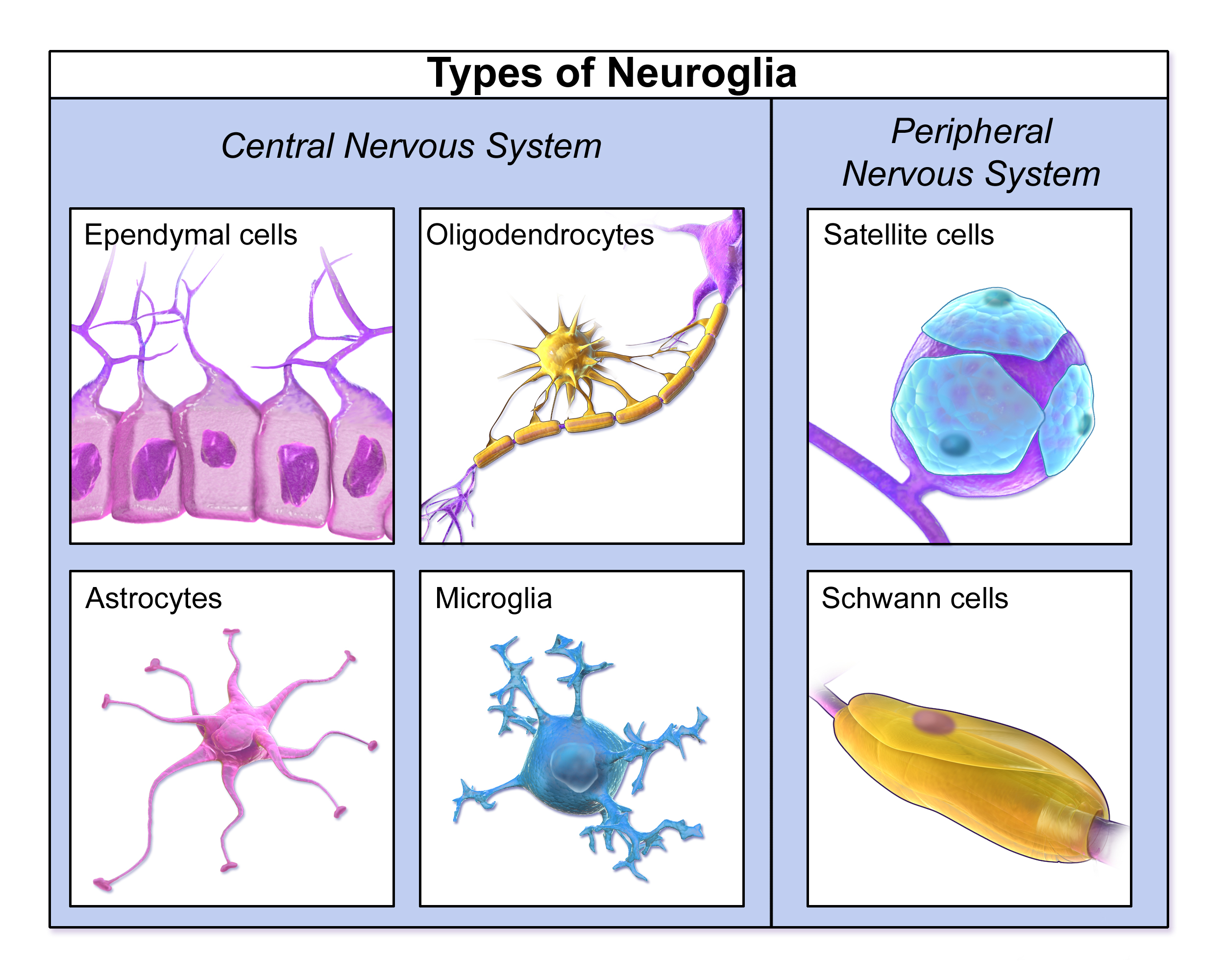 Types of Neuroglia. See a related animation of this medical topic.